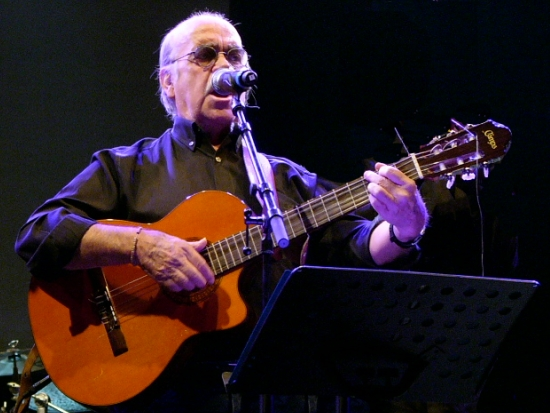 Aragonese singer/songwriter Labordeta performing live in HUesca